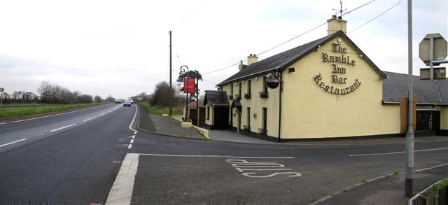 The Ramble Inn It is located along the Lisevenagh Road dual-carriageway